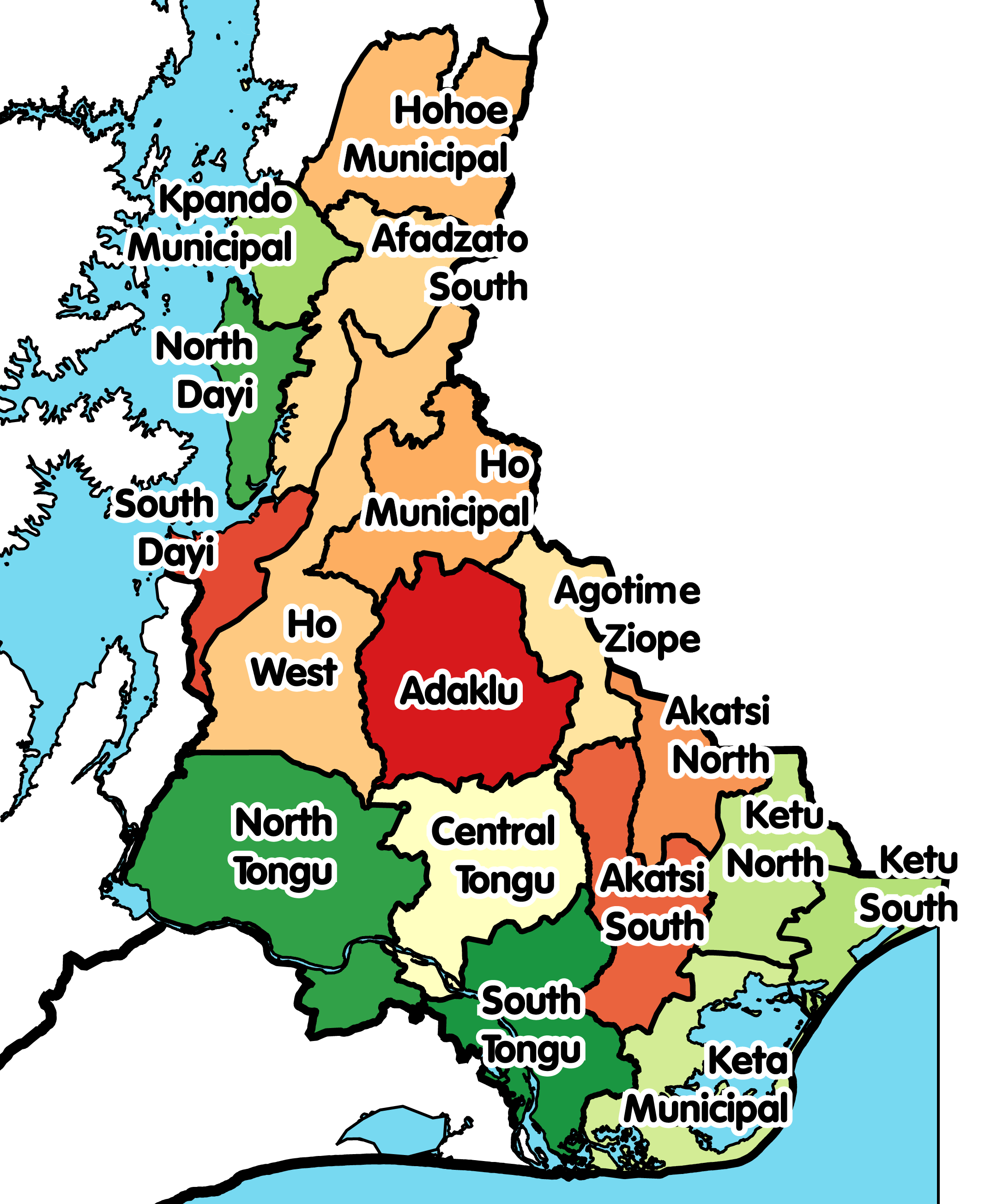 Political map of Ghana's Volta Region and its districts after Oti Region was created from it in December 2018.